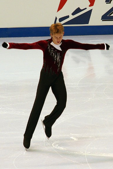 Sergei Voronov at the 2006 Skate America.